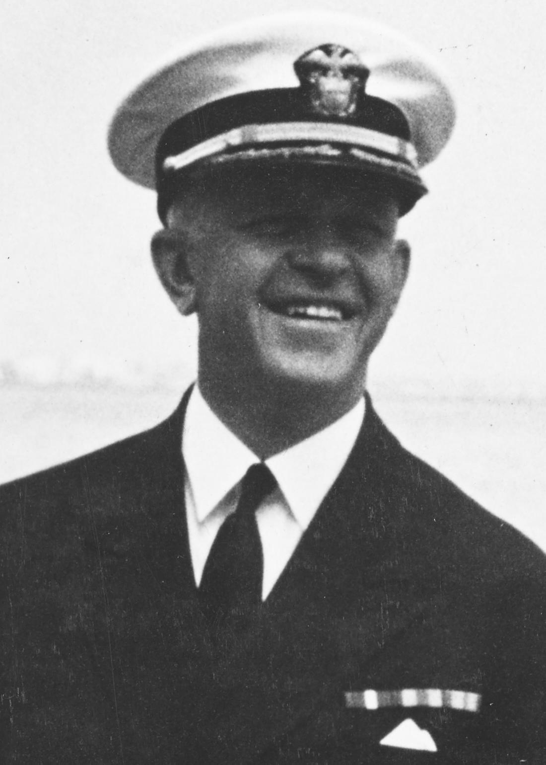 Captain Leigh Noyes, USN, Commanding Officer of USS Lexington